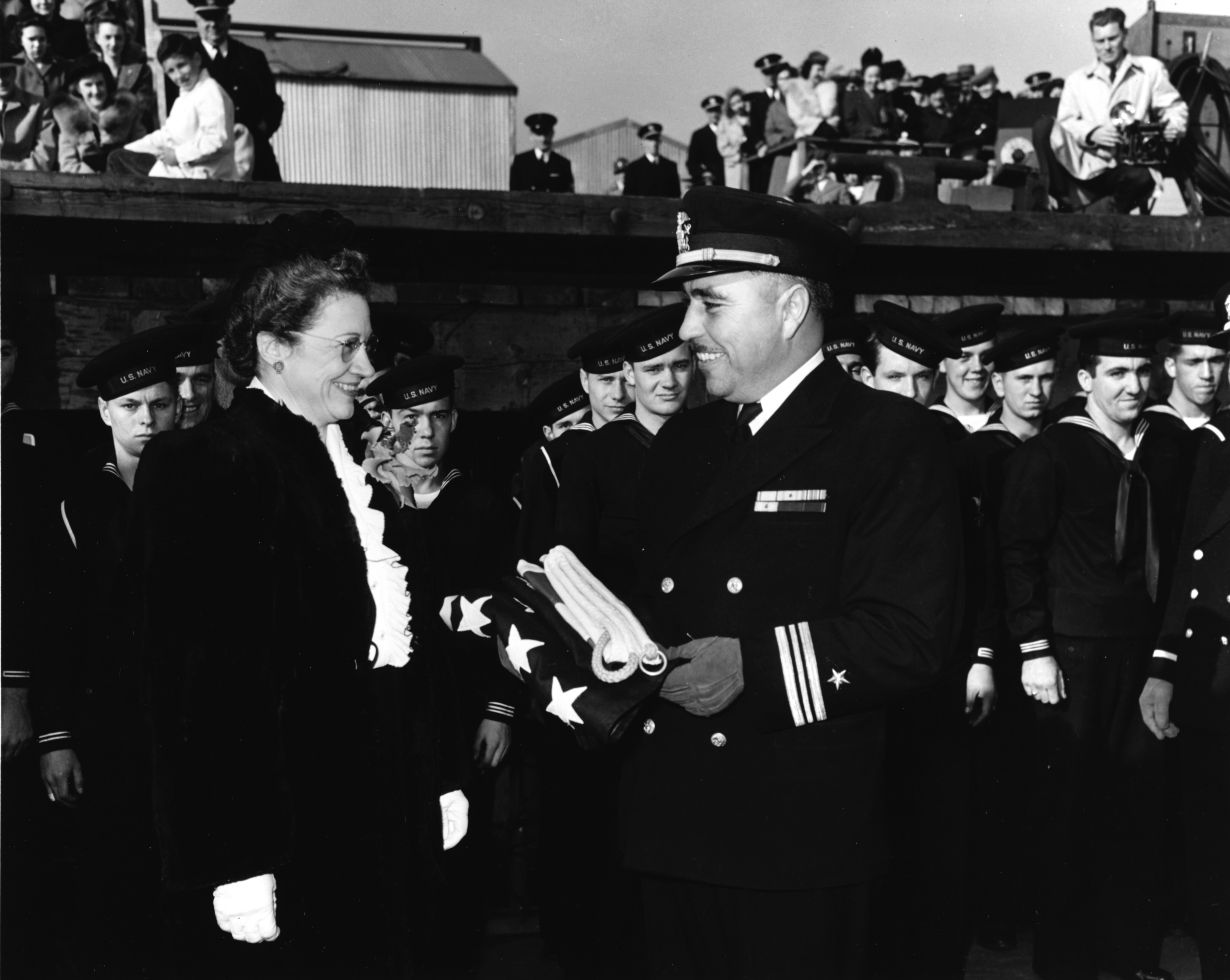 Lieutenant Commander Ernest E. Evans, U.S. Navy (1908-1944) at the commissioning ceremonies of the destroyer USS Johnston (DD-557) at Seattle, Washington (USA), on 27 October 1943. He was Johnston's Commanding Officer from then until she was sunk in the Battle off Samar, 25 October 1944, and was lost with the ship.